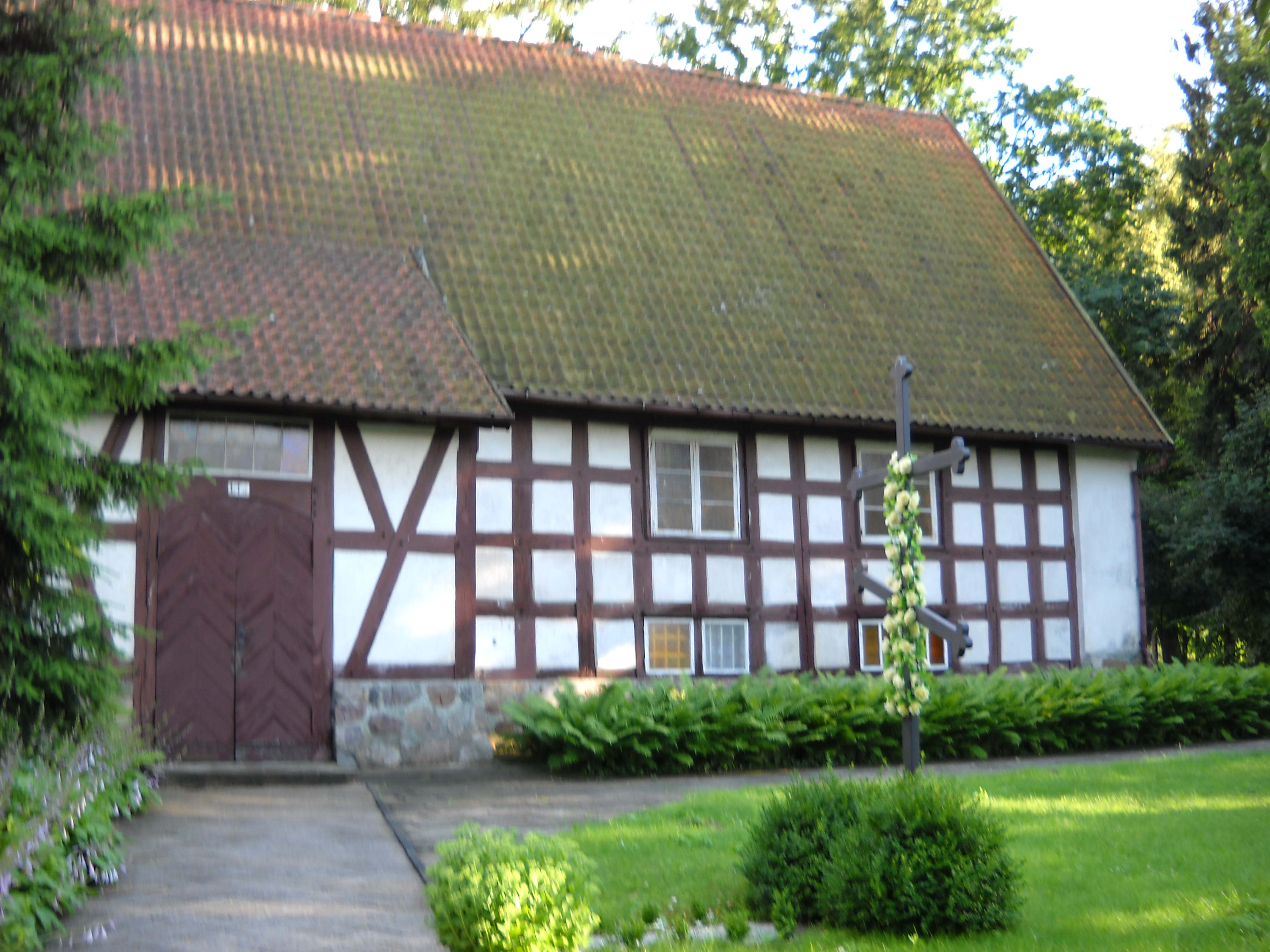 Eastern Orthodox church in Pasłęk